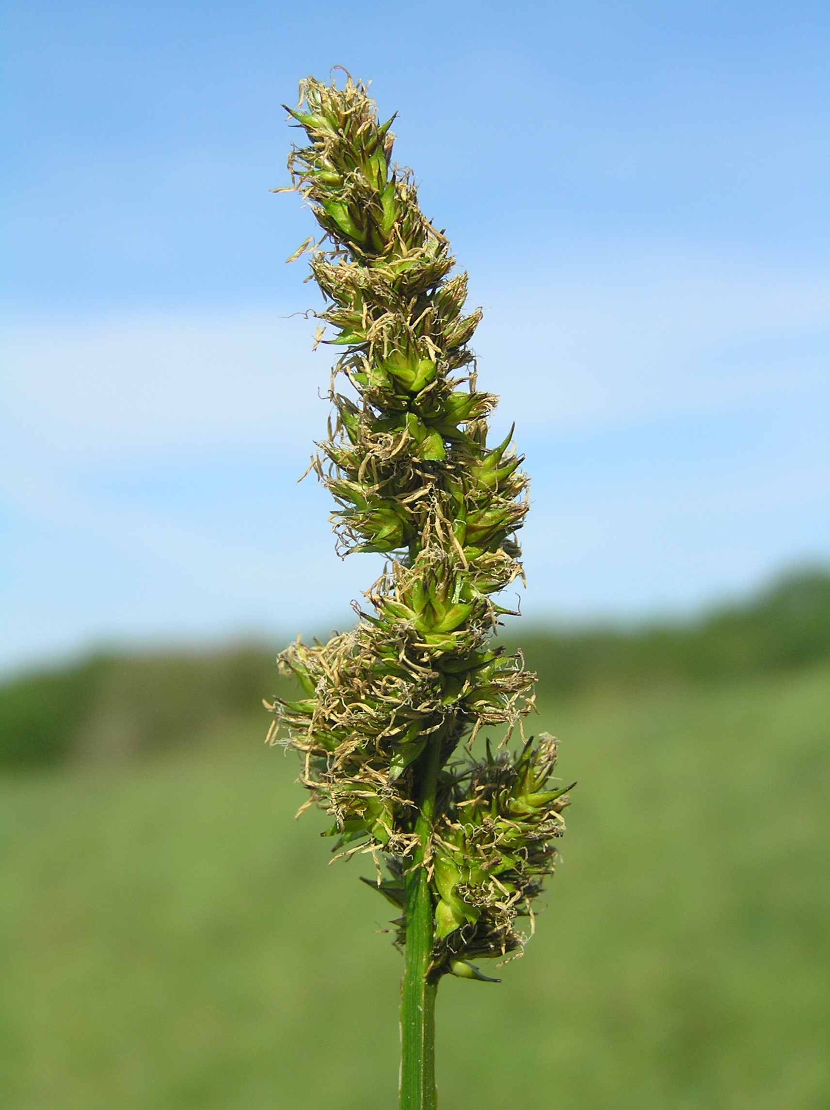 Carex vulpina, Lanžhot, Southern Moravia, Czech Republic